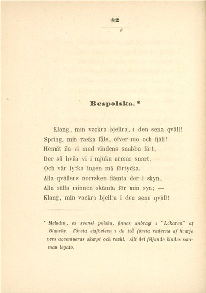 Respolska (first page) from Zacharias Topelius:Ljungblommor II, p. 82